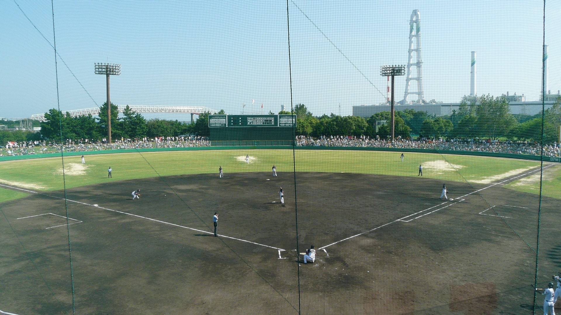 Yokkaichi-Stadium